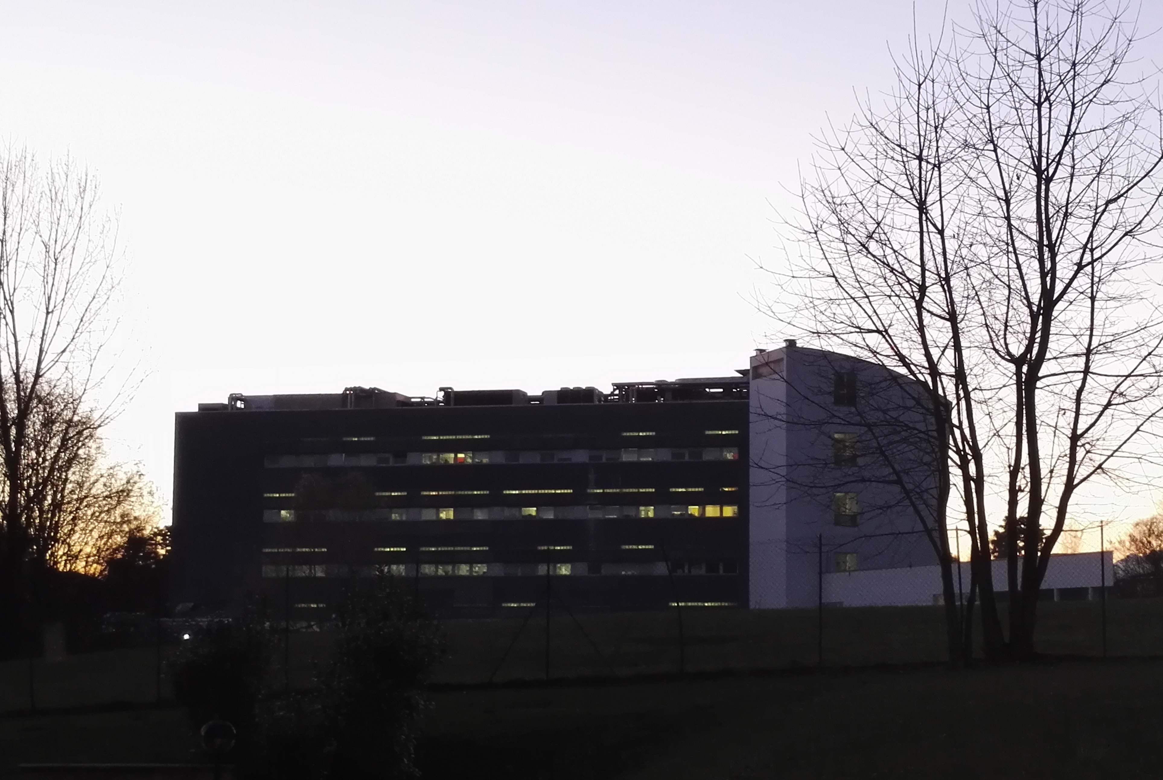 Dept. of Biotechnology and Life Sciences, University of Insubria, Varese, Italy